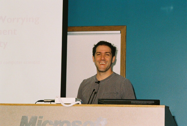 2006: Gary William Flake on the Internet Singularity and Microsoft Live Labs